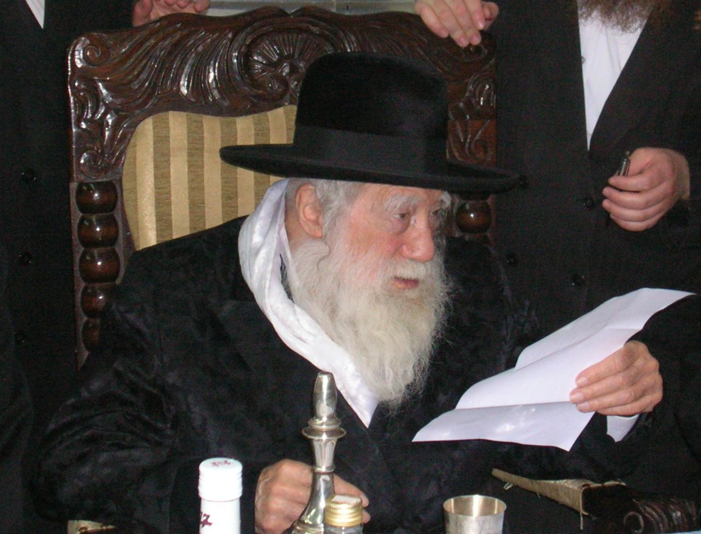 Erlau Rebbe. Image has not been altered and is in its original form (only cropped).